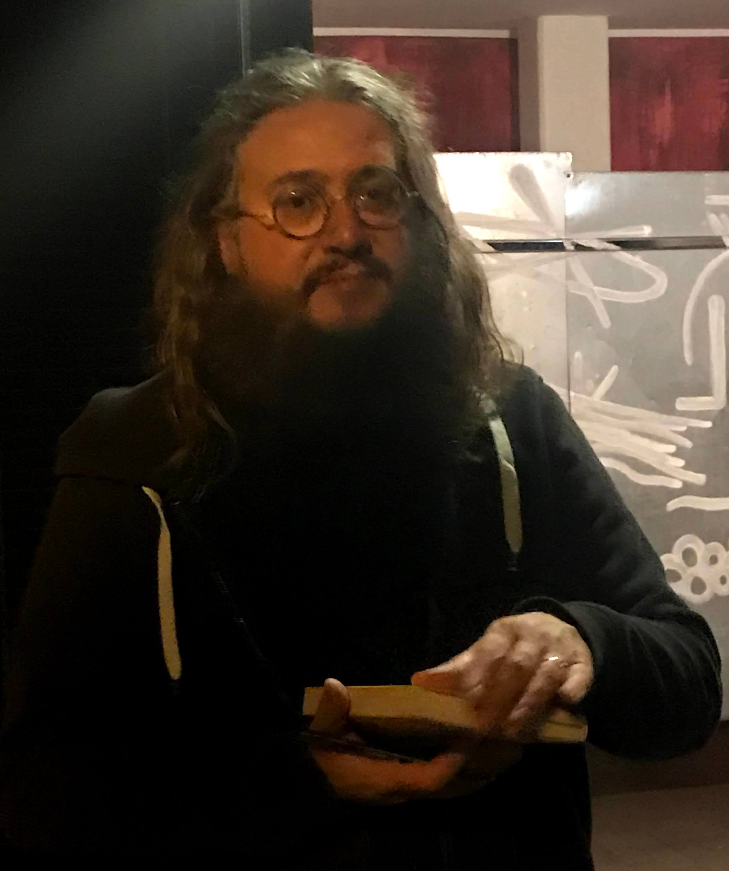 The theater actor and writer Roberto Mercadini